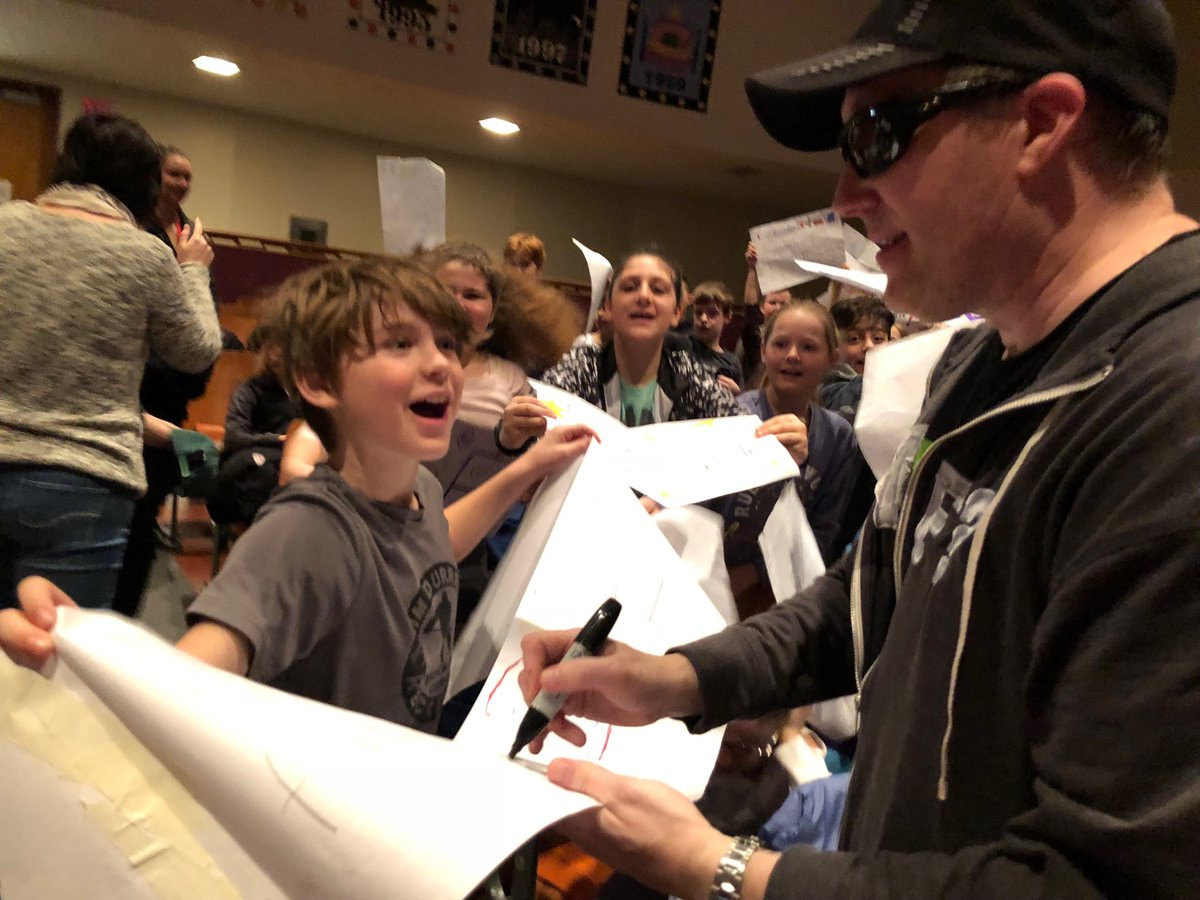 Canadian artist Étienne signs autographs for his fans on March 2nd, 2018 in Ottawa, Ontario, Canada.